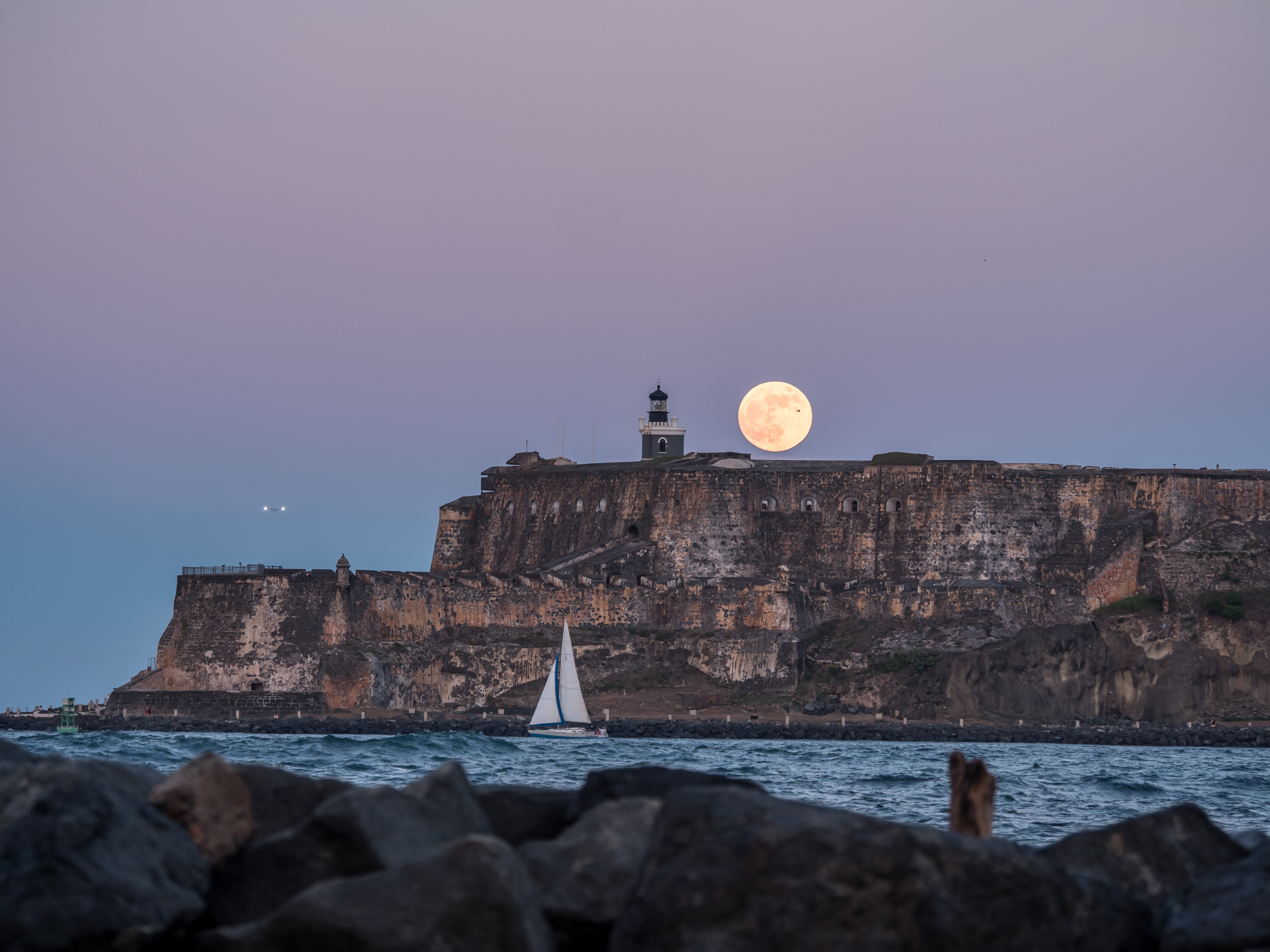 This was in the exact day of the full moon of September 27 of 2015 (red full moon total eclipse)